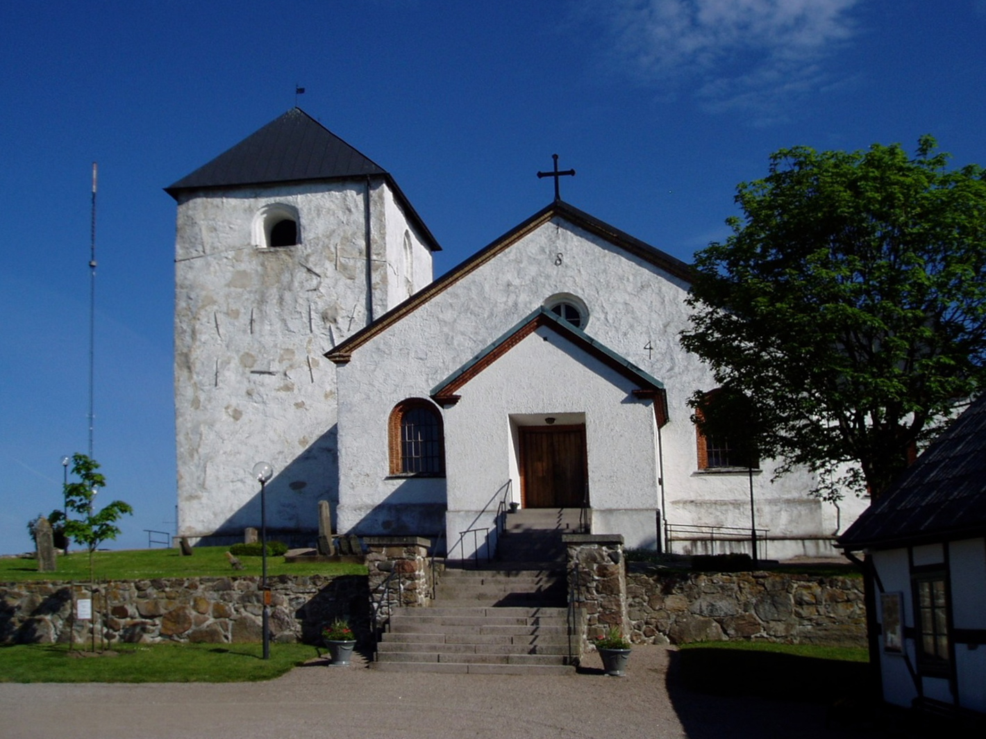 Church at Östra Sallerup, Scania, Sweden